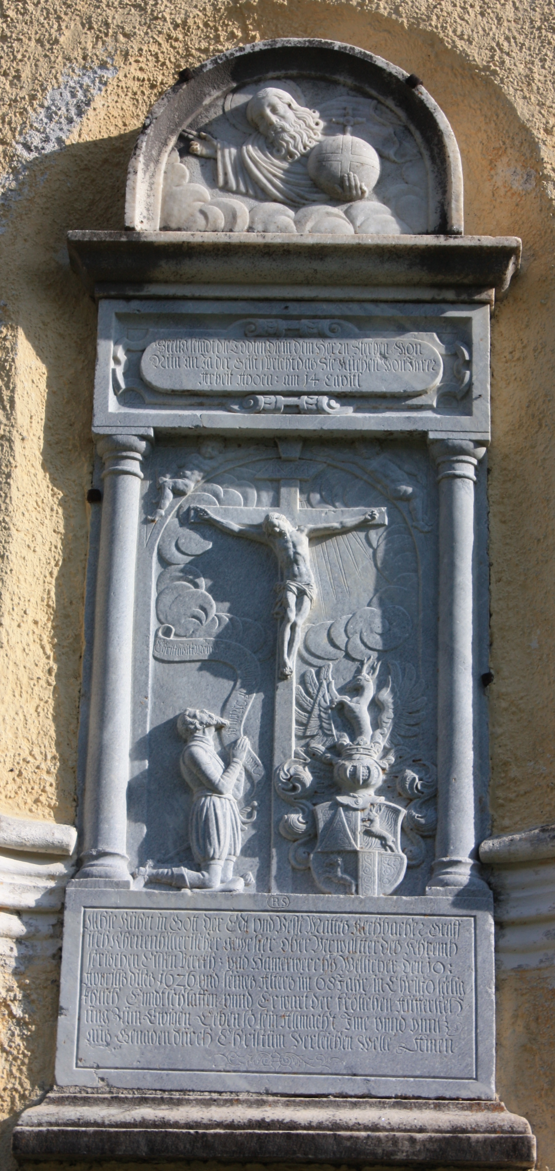 Parish church - Epitaph Locality: Auf der Eben Community:Paternion